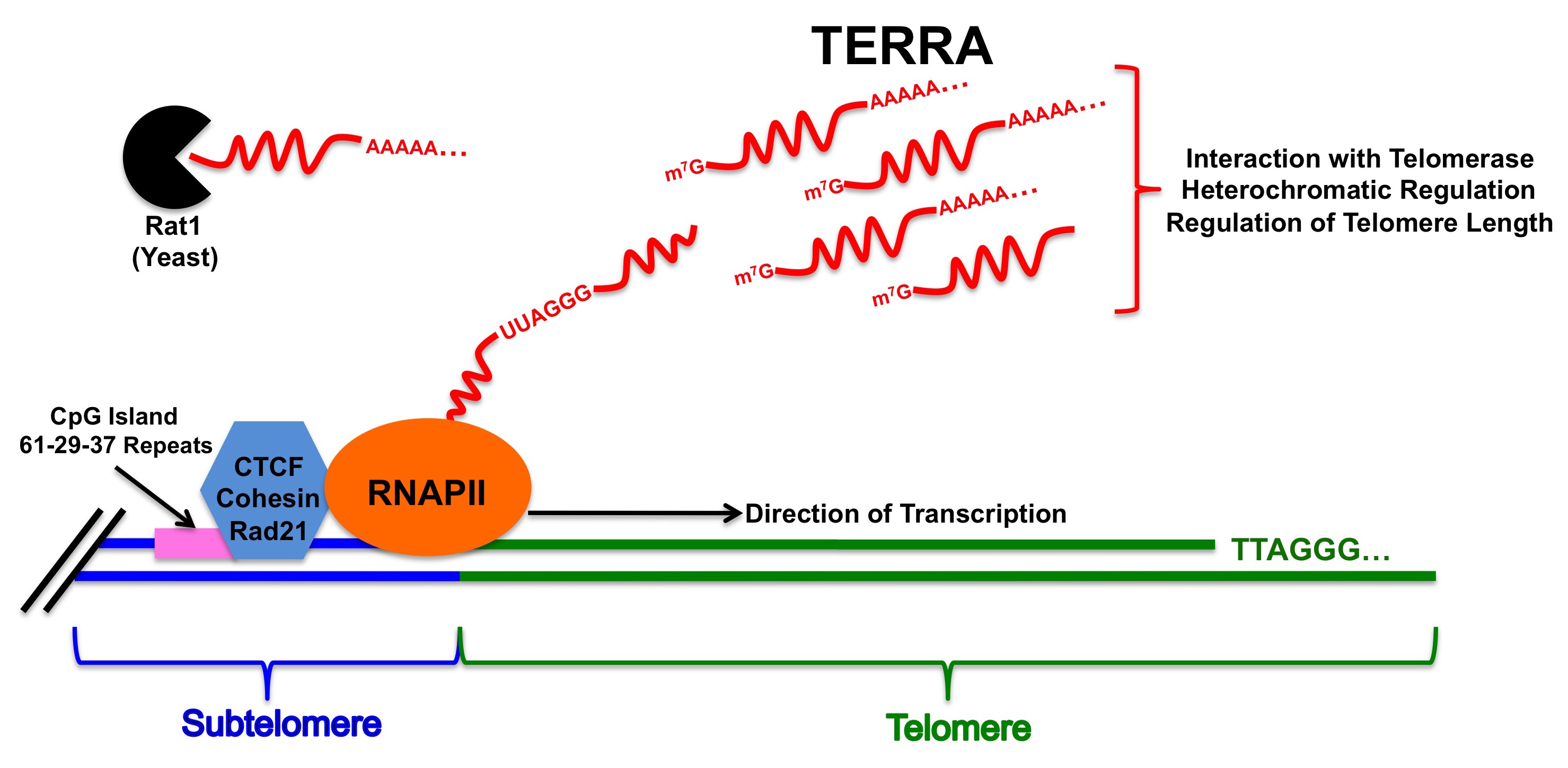 Overview of TERRA biogenesis: Promoter elements bind to the CpG islands of the subtelomeric region to recruit RNA Polymerase II, which transcribes TERRA in the 5' to 3' direction. In yeast, TERRA is degraded by Rat1. TERRA functions within the cell to modulate telomerase function, modify the heterochromatic state of chromosomes, and regulate telomere length